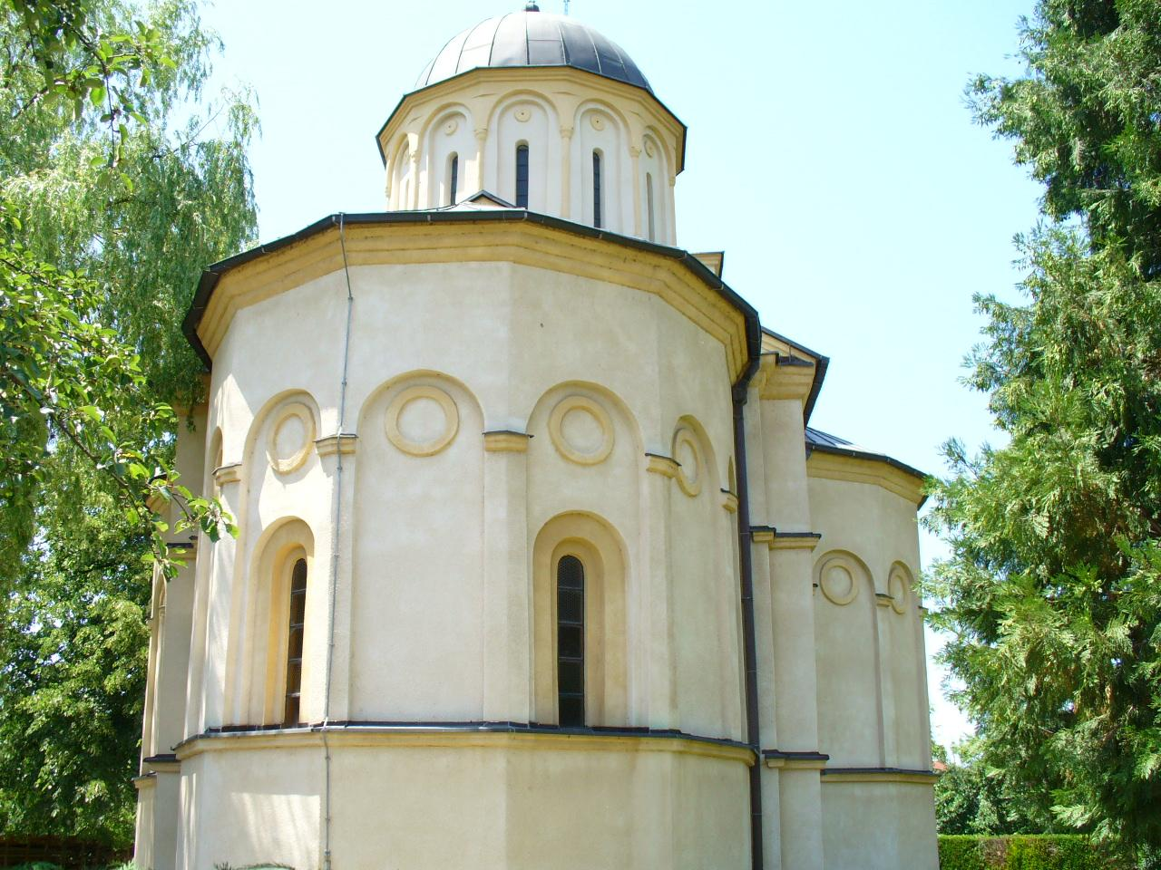 Orthodox Church in Kotor Varoš, Republika Srpska, Bosnia and Herezegovina